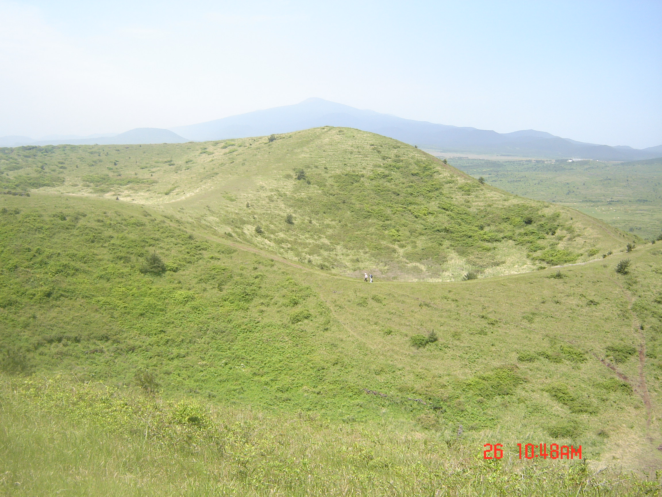 DDarabi, mountains of Jeju-do, South Korea